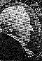 Portrait of John Bethune (1751-1815), of Williamstown, Ontario, founder of the Presbyterian Church in Canada